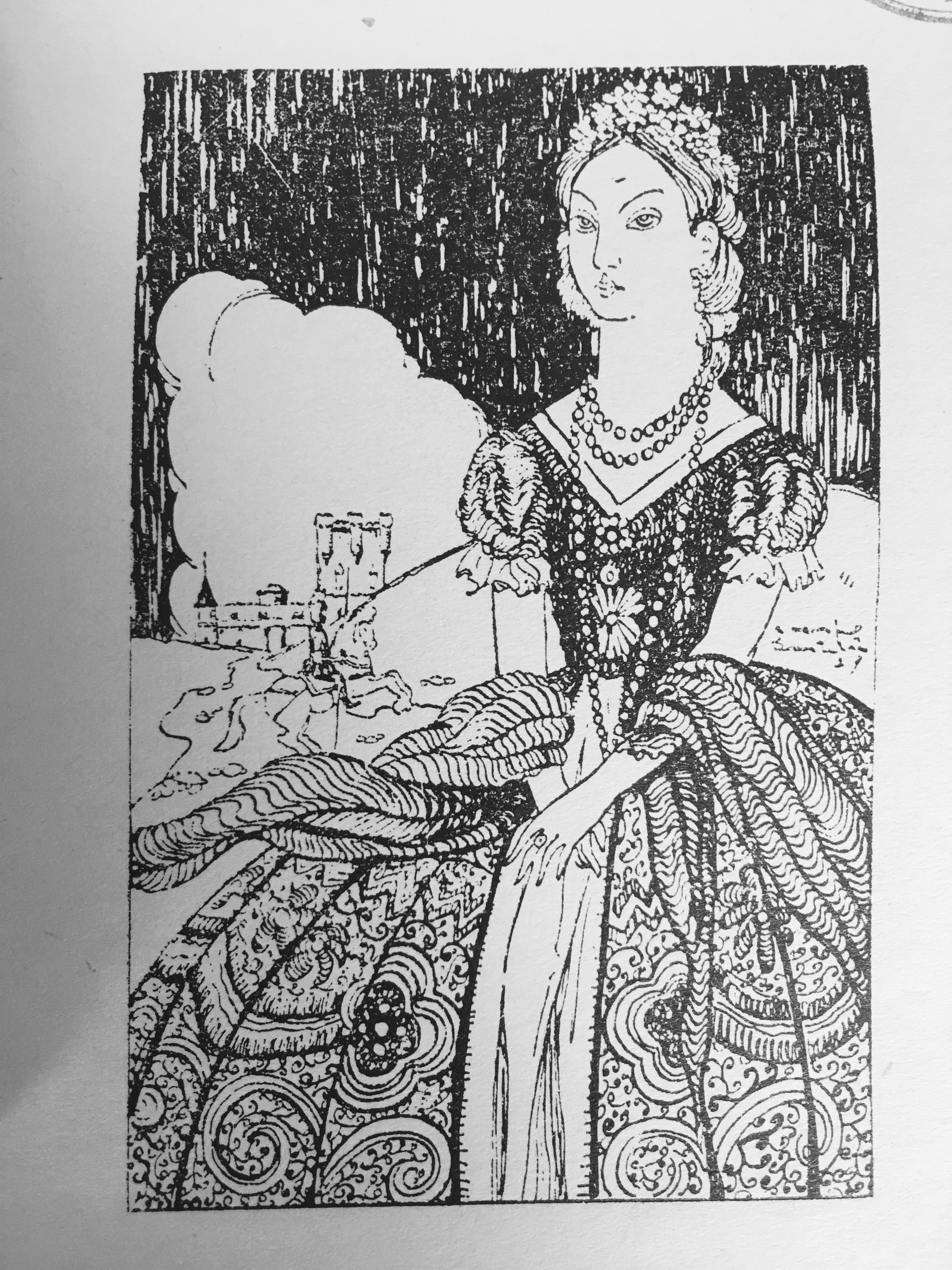 Ilustración de David Crespo Gastelú en el libro Sombras de mujeres, de Alberto de Villegas.